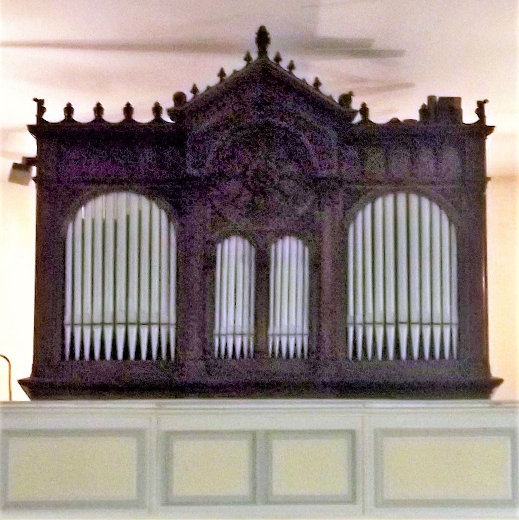 Interior of the roman catholic church in Bisten, Saarland, Deutschland